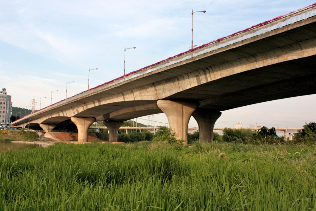 Bridge in Ulsan